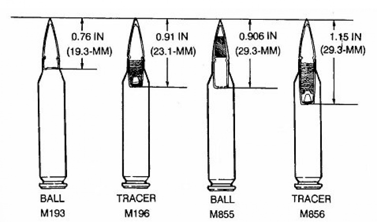 Internal Ballistics. The overall dimensions of the combat service 5.56-mm cartridges are the same, which allows cartridges to be fired safely in M16A1 or M16A2 rifles and the M4 carbine. There are internal differences that affect firing accuracy.